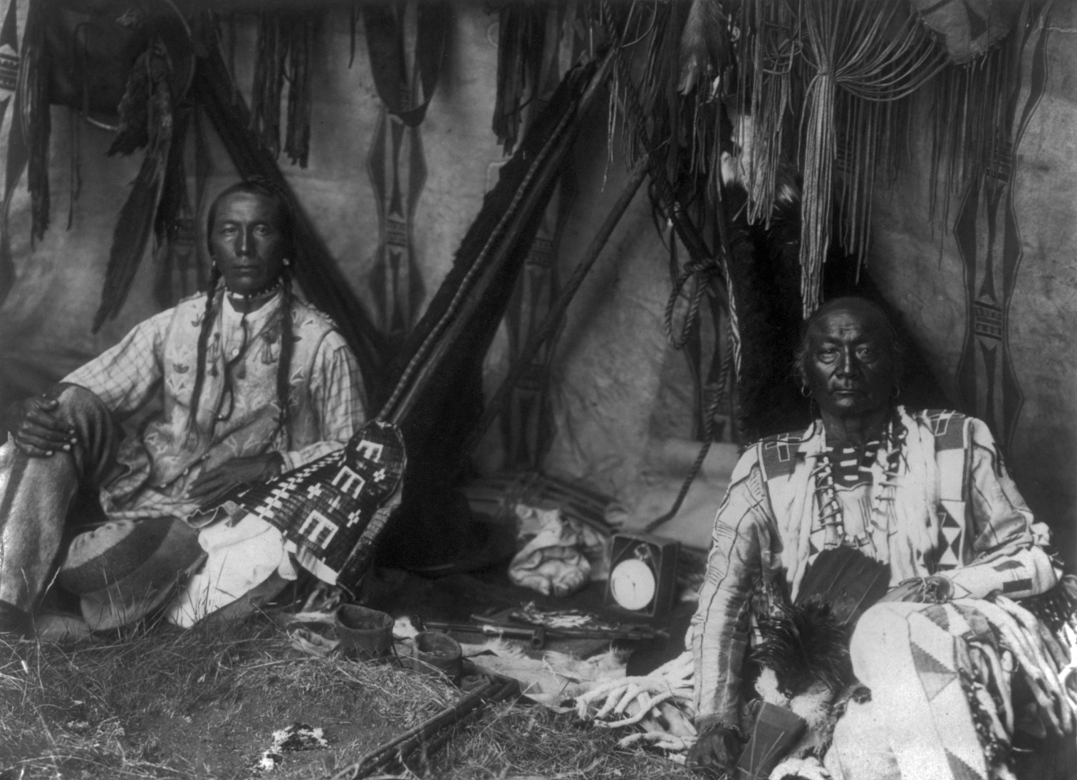 Little Plume and son Yellow Kidney seated on ground inside lodge, pipe between them.